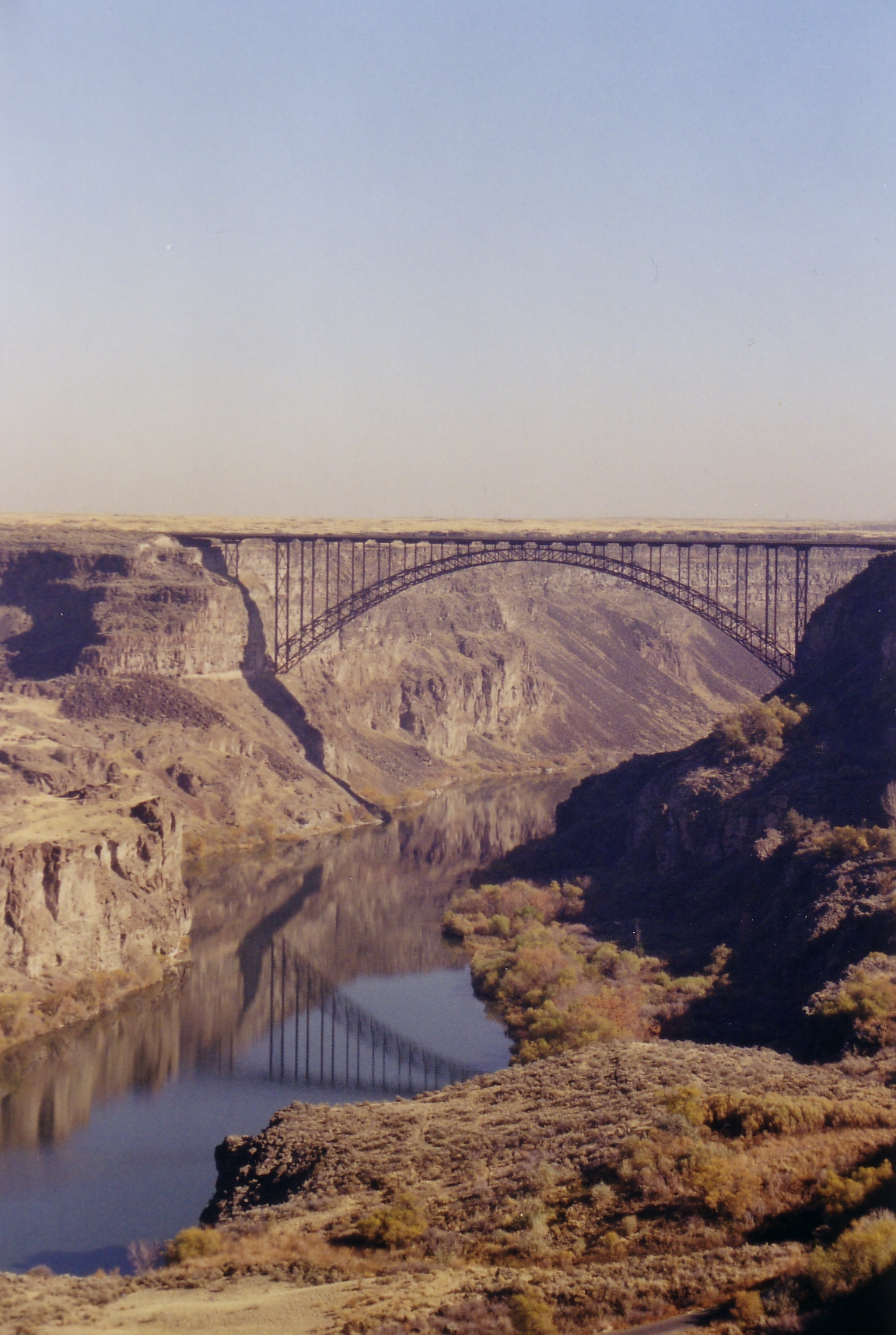 Heather Dillon (US) photographer - User:Lepton4181. Photo of the Perrine Bridge in Twin Falls Idaho from the Sleeping beauty overlook at the south side.